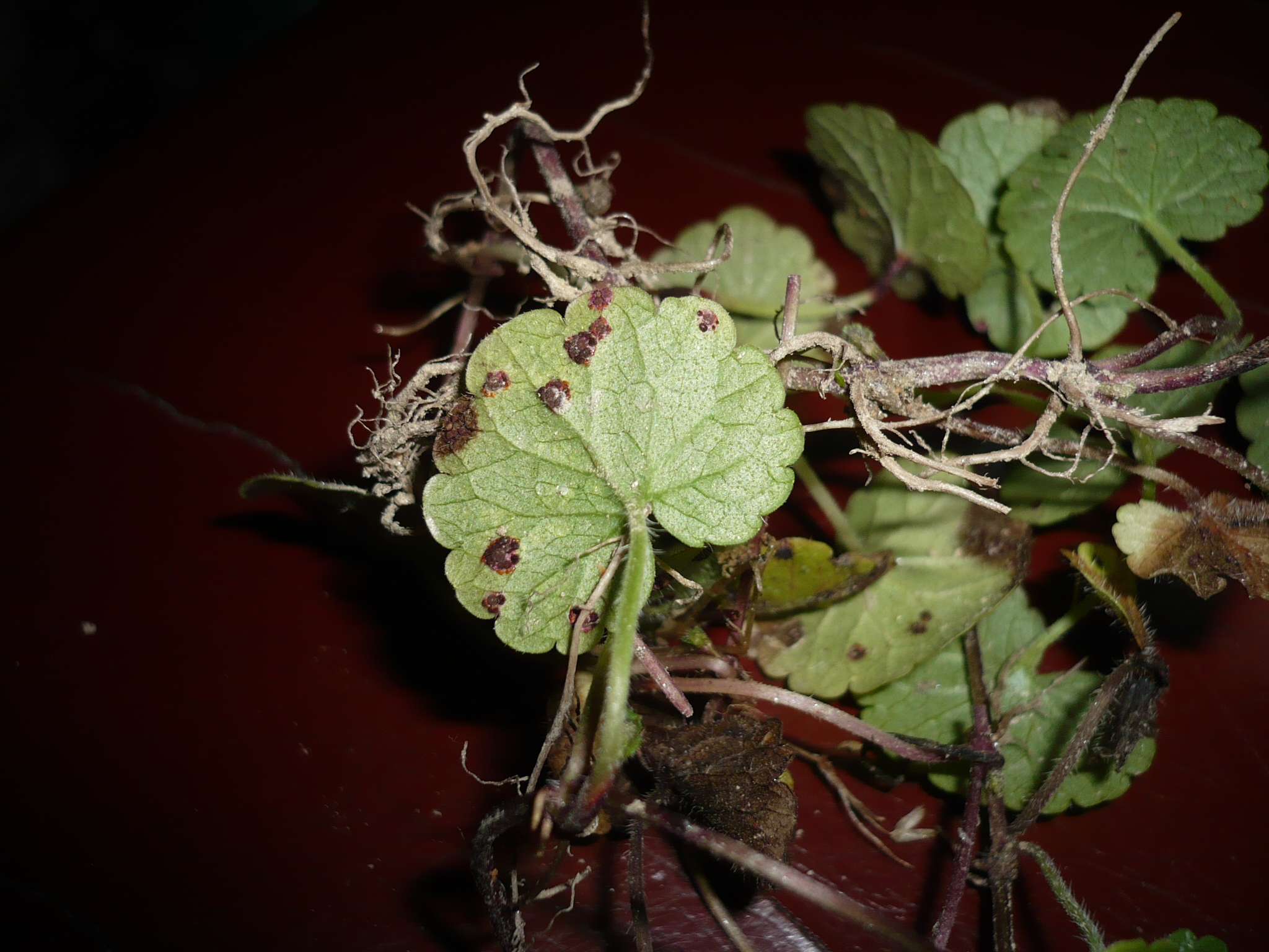 Puccinia glechomatis Image location: Rosalia-Wulka, Forchtenstein, Bezirk Mattersburg, Burgenland, Austria Recognized by sight For more information about this, see the observation page at Mushroom Observer.